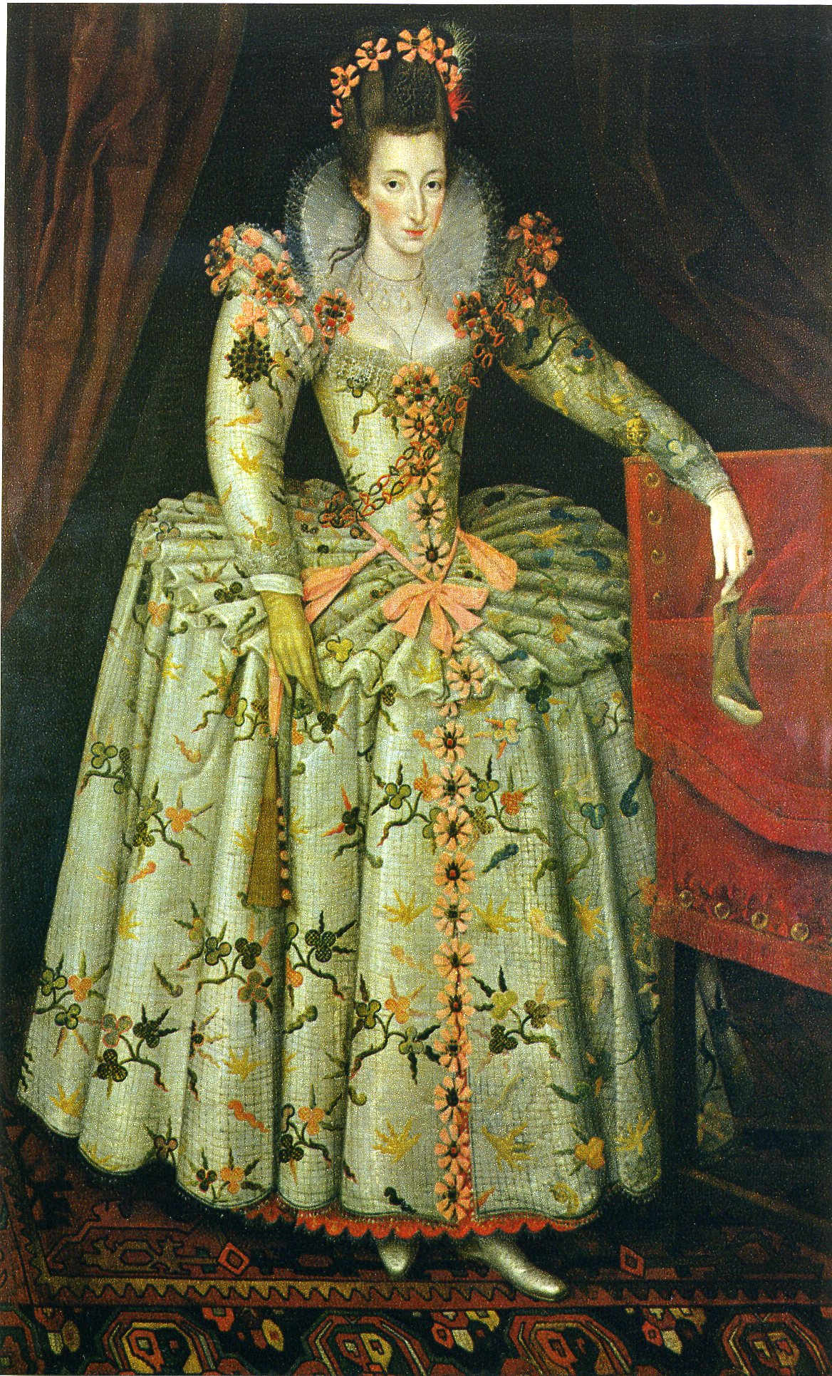 Anne Vavasour, who in 1580 was appointed as a Gentlewoman of Her Majesty's Bedchamber to Queen Elizabeth I of England. Collection of the Armourers and Brasiers of the City of London.